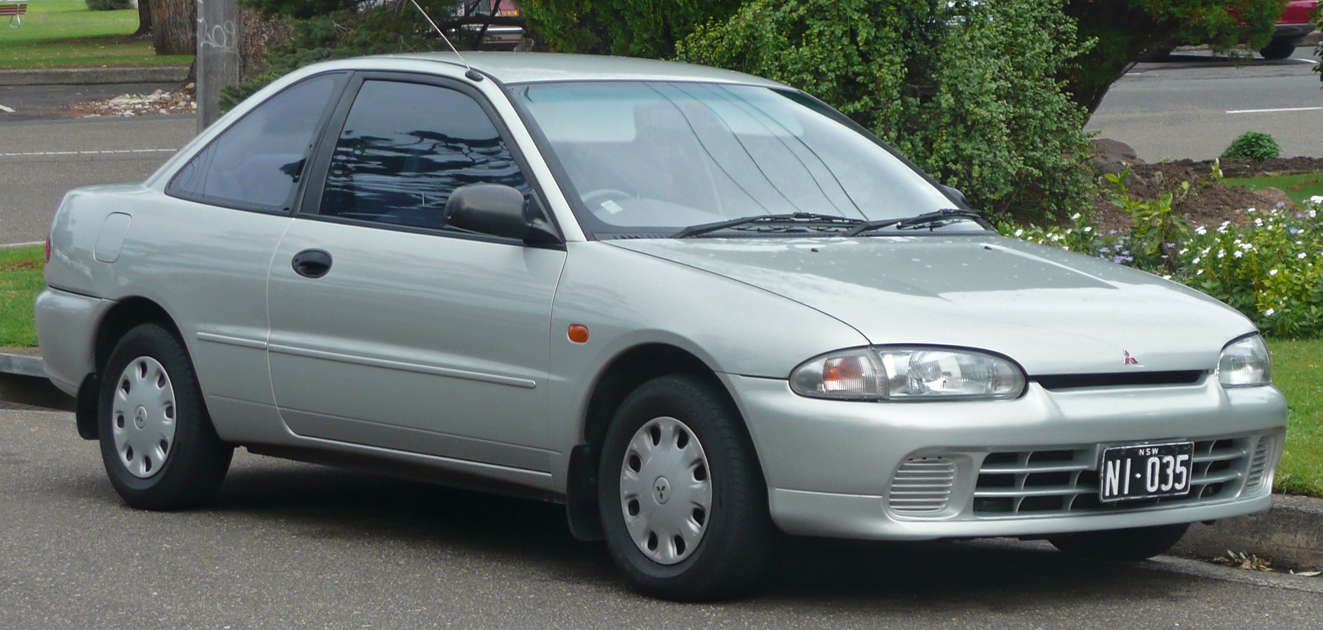 1995 Mitsubishi Lancer (CC) GLXi coupe. Photographed in Cronulla, New South Wales, Australia.